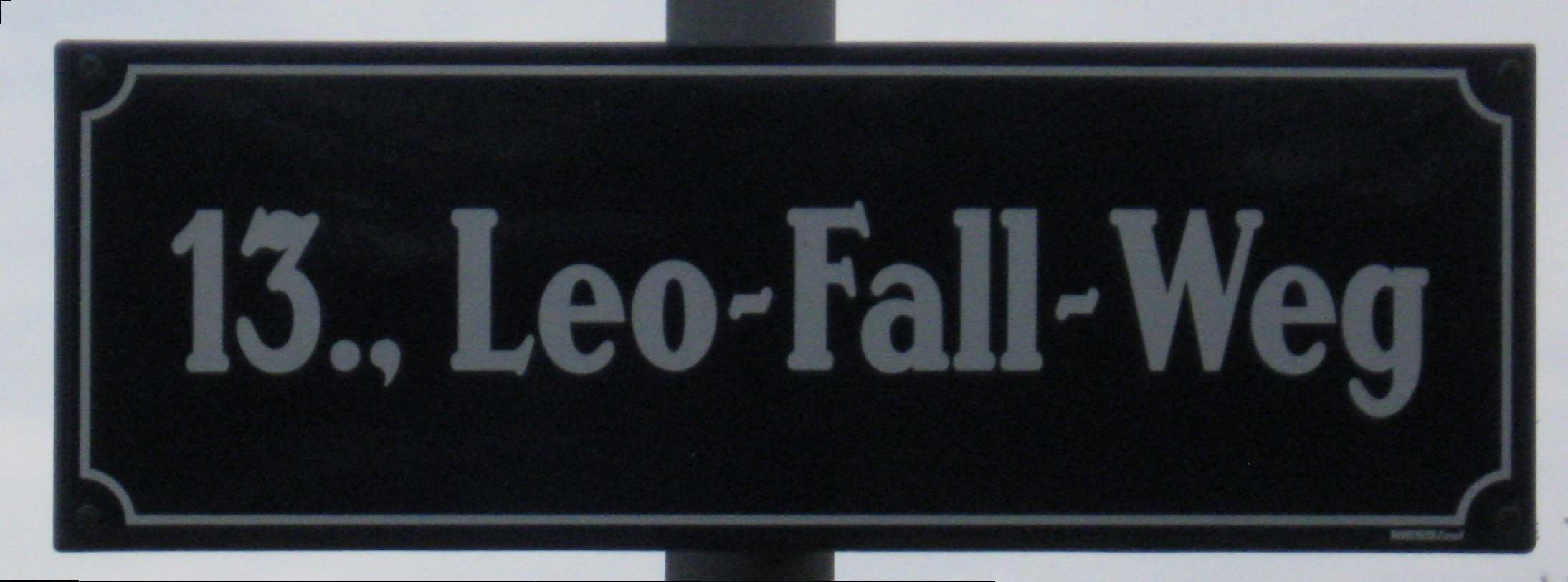 Street name sign for Leo Fall in Hietzing, 13th district of Vienna.